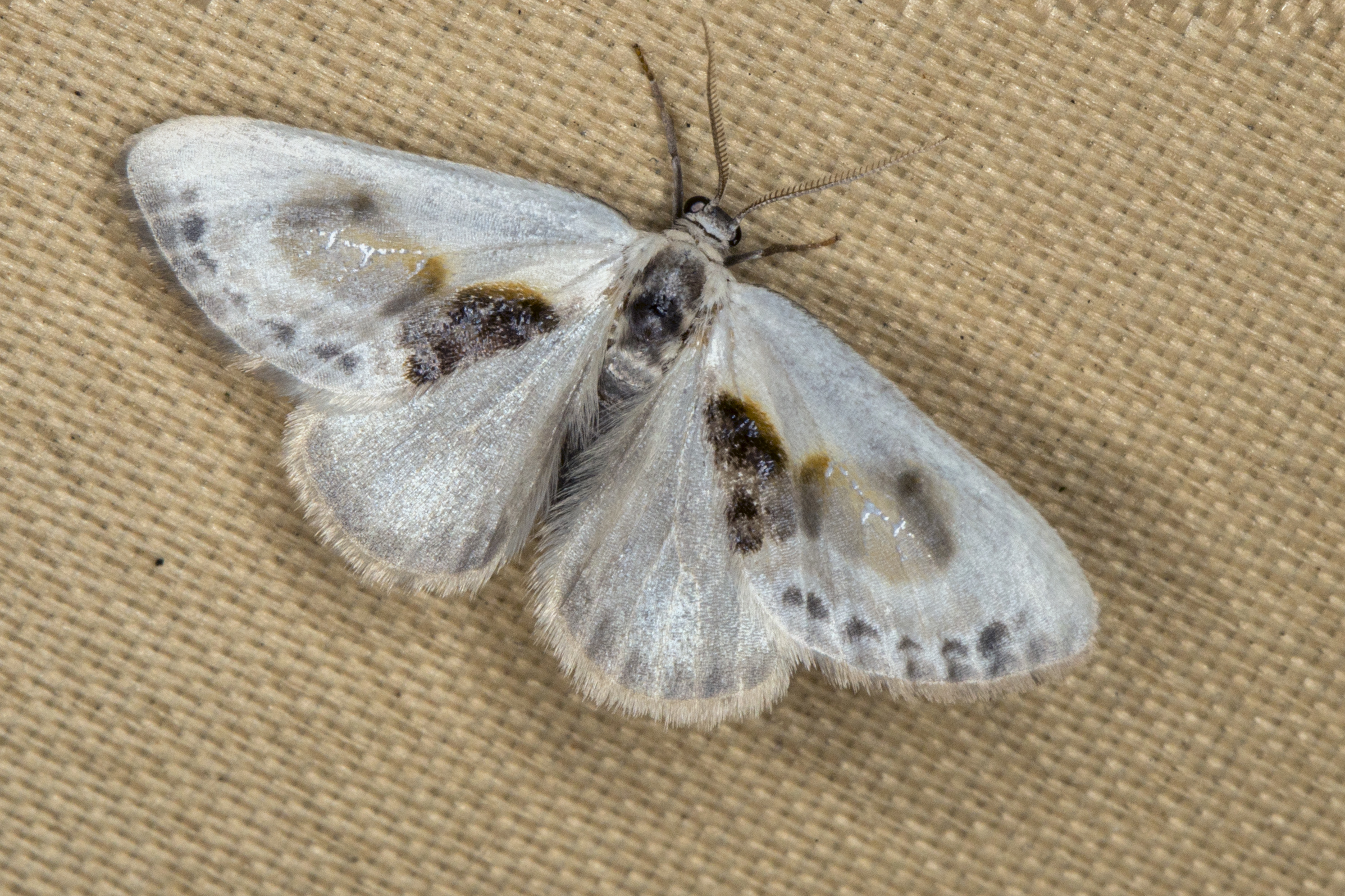 Chinese Character ‘’(Cilix glaucata)’’, Lodz(Poland)